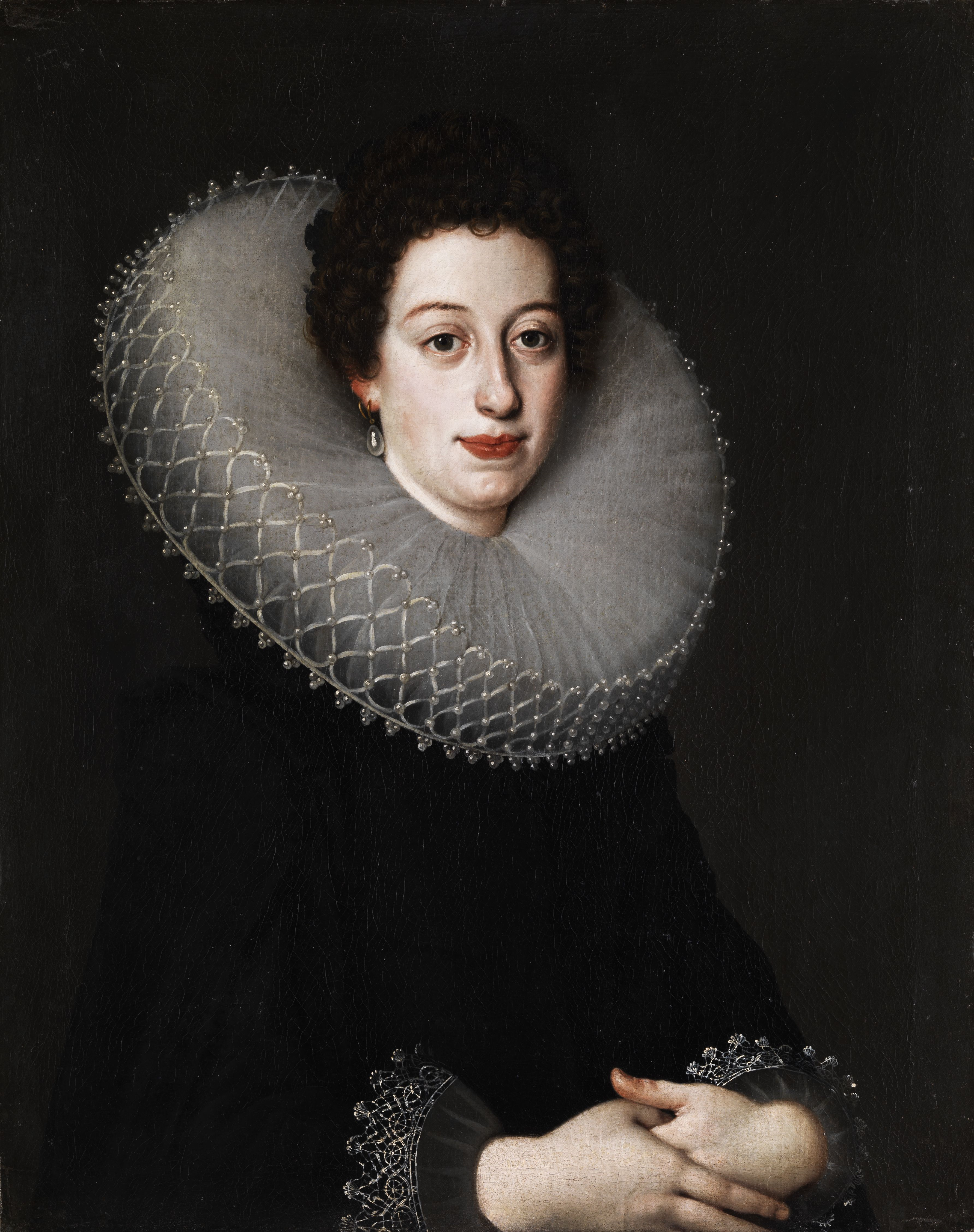 Catherine de' Medici, Governor of Siena (1593-1629)